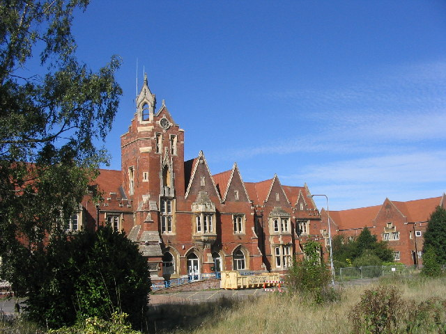 Warley Mental Hospital, Warley, Essex